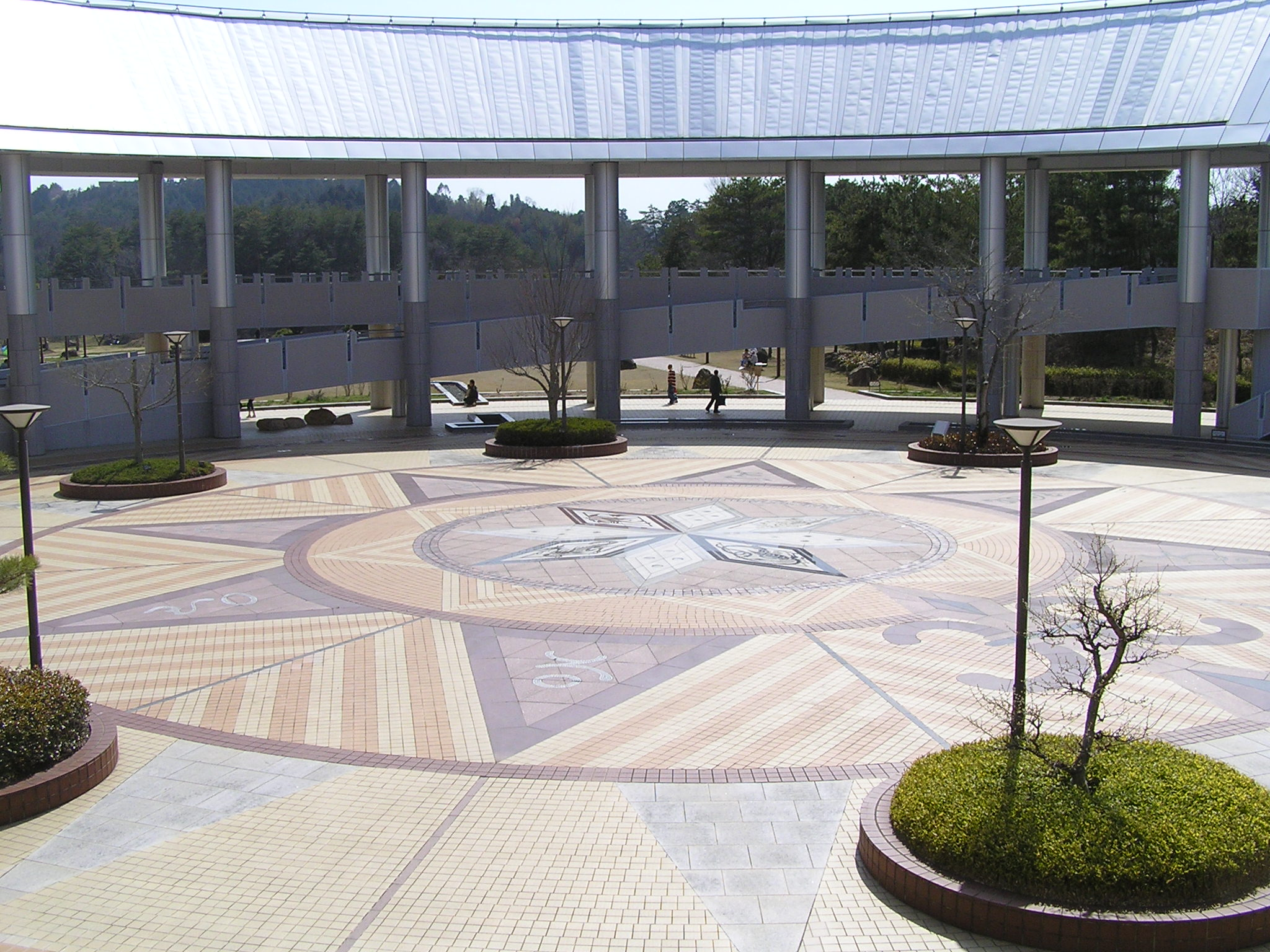 Town square in Kibi plateau city central district